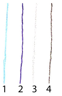 (1) Color copy of non-photo blue pencil. (2) Color copy of blue pen. (3) Grayscale copy of non-photo blue pencil. (4) Grayscale copy of blue pen. Note that I pressed very hard with the non-photo blue pencil. Non-photo blue is sometimes called non-repro blue.